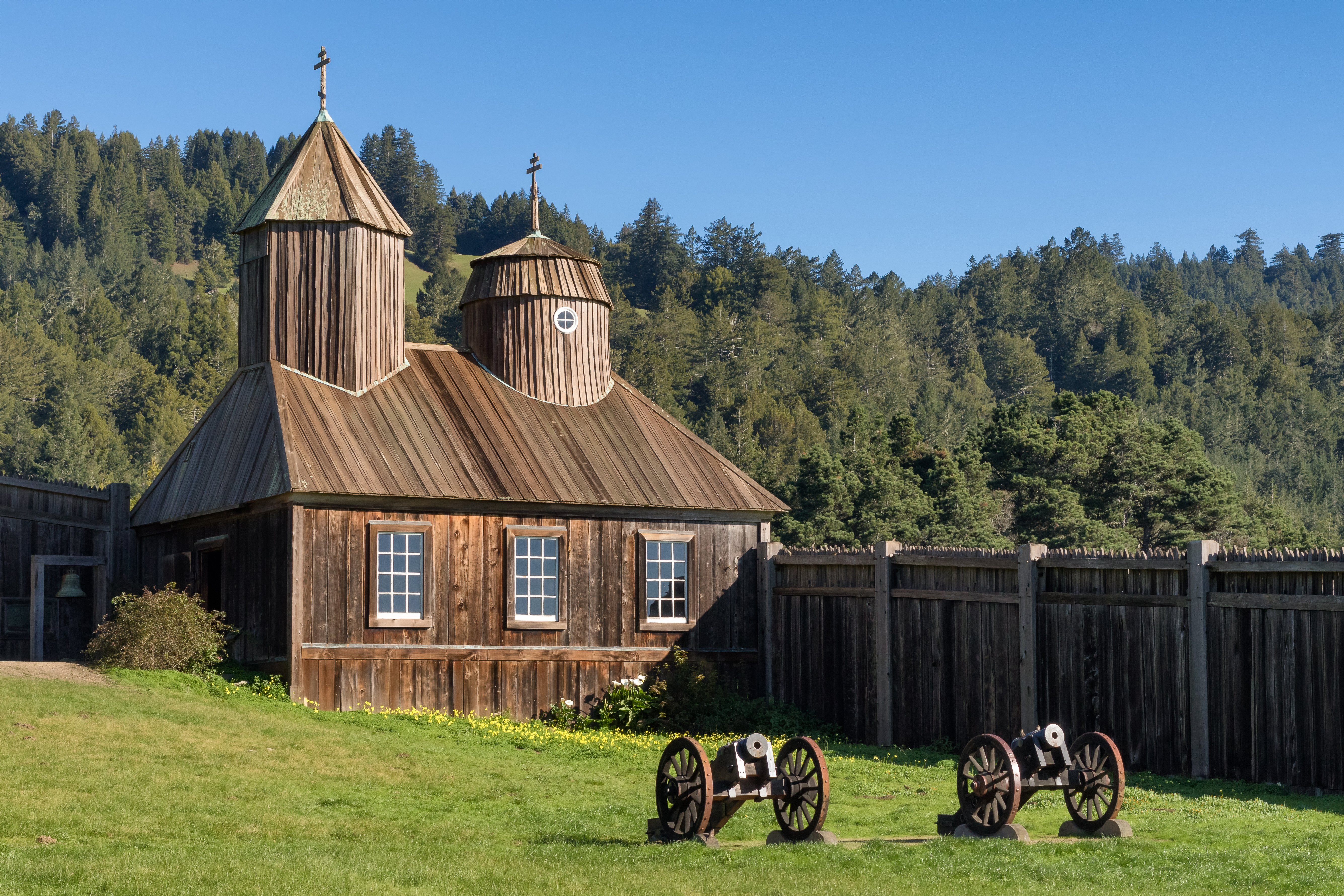 Orthodox Holy Trinity St. Nicholas Chapel at Fort Ross, Sonoma County, California. The chapel is part of the Fort Ross State Historic Park. The chapel was originally built in the mid-1820s and got destroyed in the 1906 earthquake. In 1970, a restored version of the chapel was entirely destroyed in an accidental fire. The photo shows the reconstructed chapel, built in 1973. It continues to be used for Orthodox religious services.